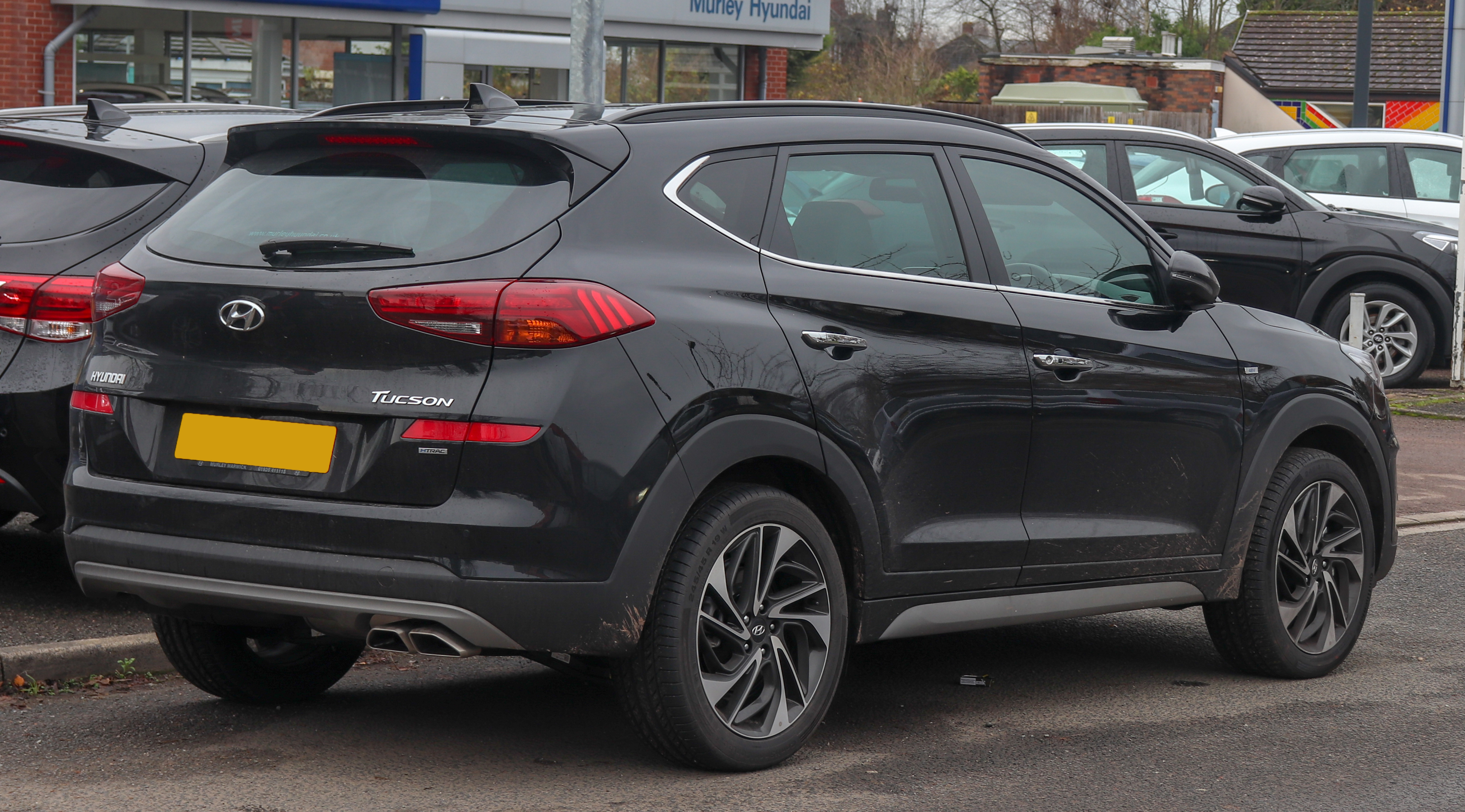 2018 Hyundai Tucson Premium SE CRDi 2WD facelift 2.0 Rear